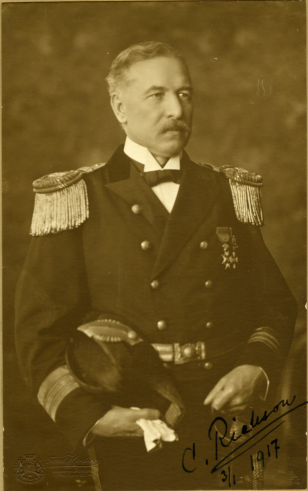 Swedish Naval engineer Carl Richson